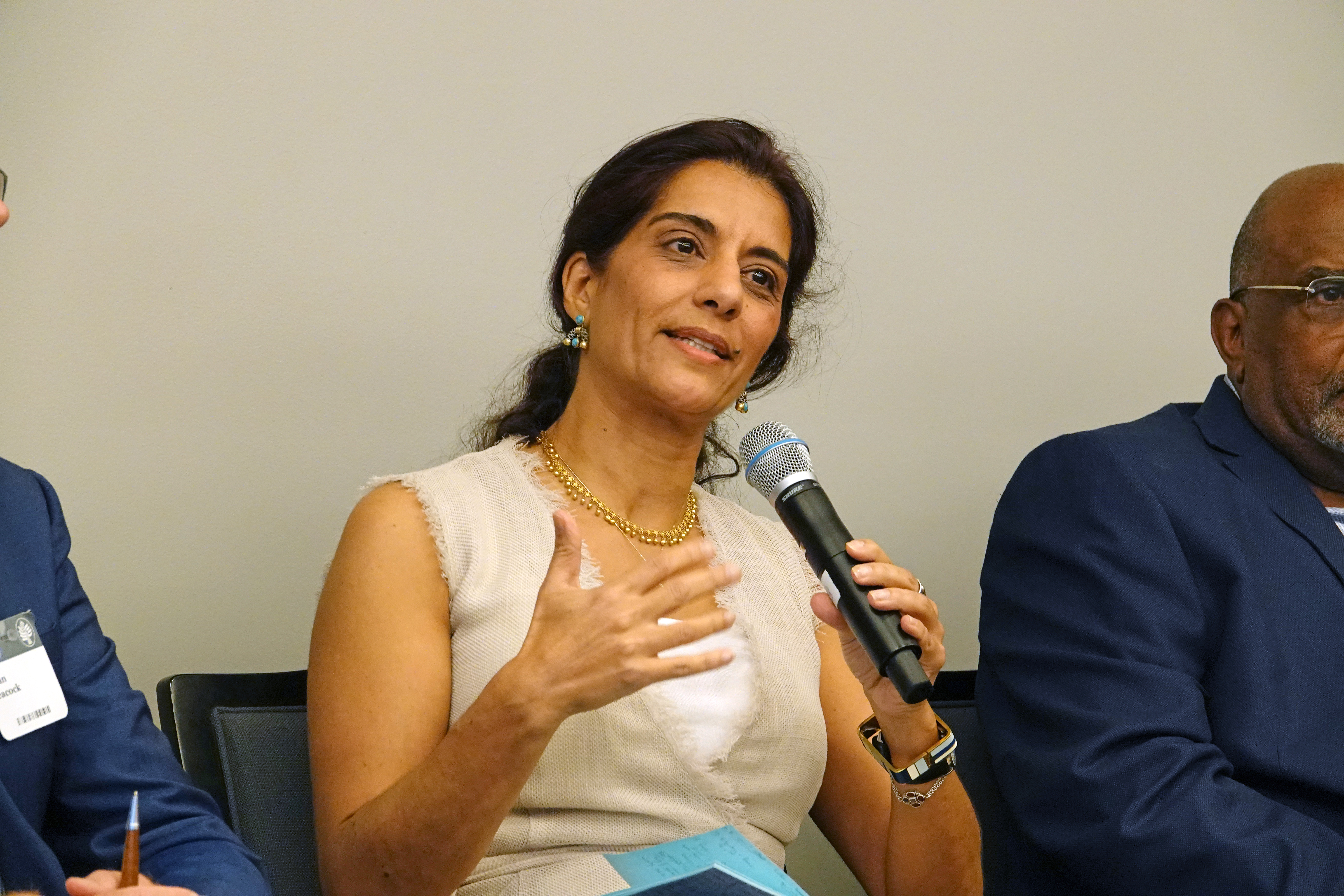 Sanam Naraghi-Anderlini discusses how men can support women's involvement in formal peace negotiations. Twenty years after the passage of U.N. Security Resolution 1325 on women, peace and security, very few women are currently part of formal peace processes. To address this, on May 30, we hosted an event to explore how men in leadership positions are organizing as partners to identify, encourage and mobilize collective voices in the support of women’s engagement in the pursuit of peace.